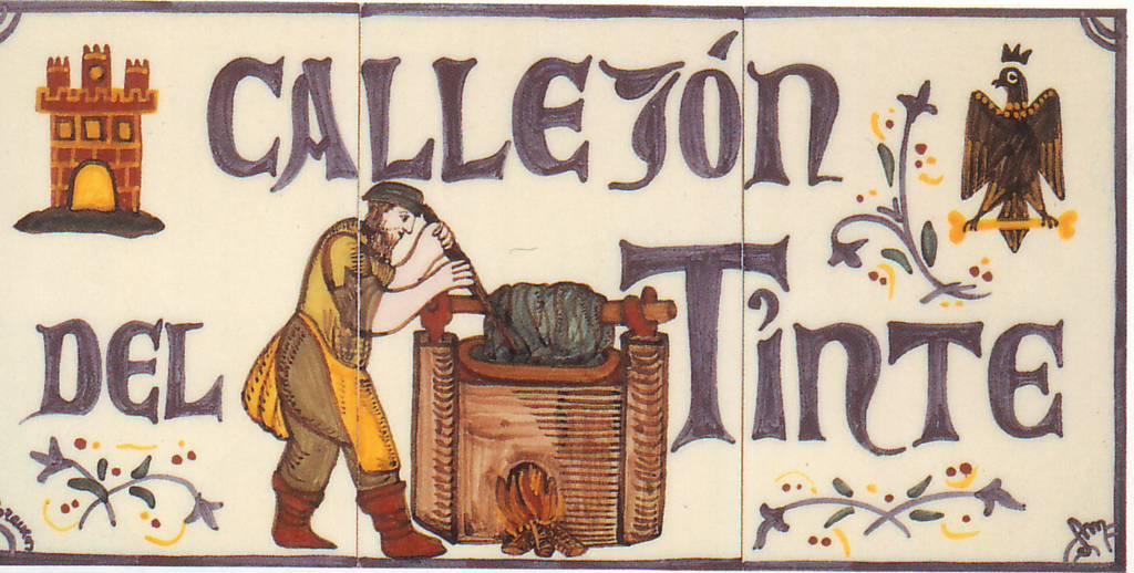 Alley of the dye in Sigüenza (Guadalajara Spain). The Alfar del Monte (Pozancos) ceramics.